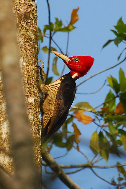 Pale-billed Woodpecker, Cayo, Belize